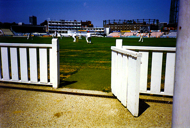 Wicket Gate? Gateway to the playing surface at the Kennington Oval. Surrey middle schools 6-a-side cricket championships are in progress.